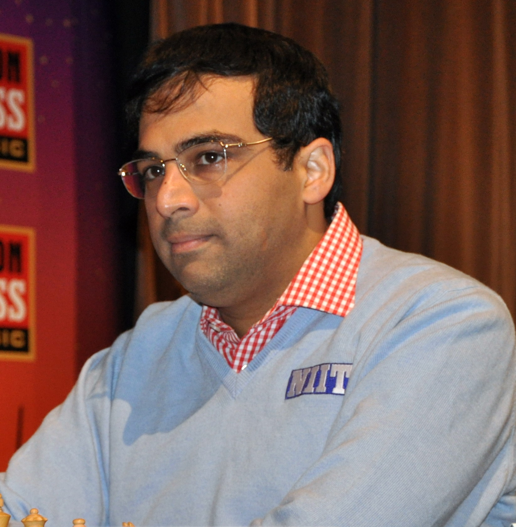 Viswanathan Anand - London Chess Classic 2010